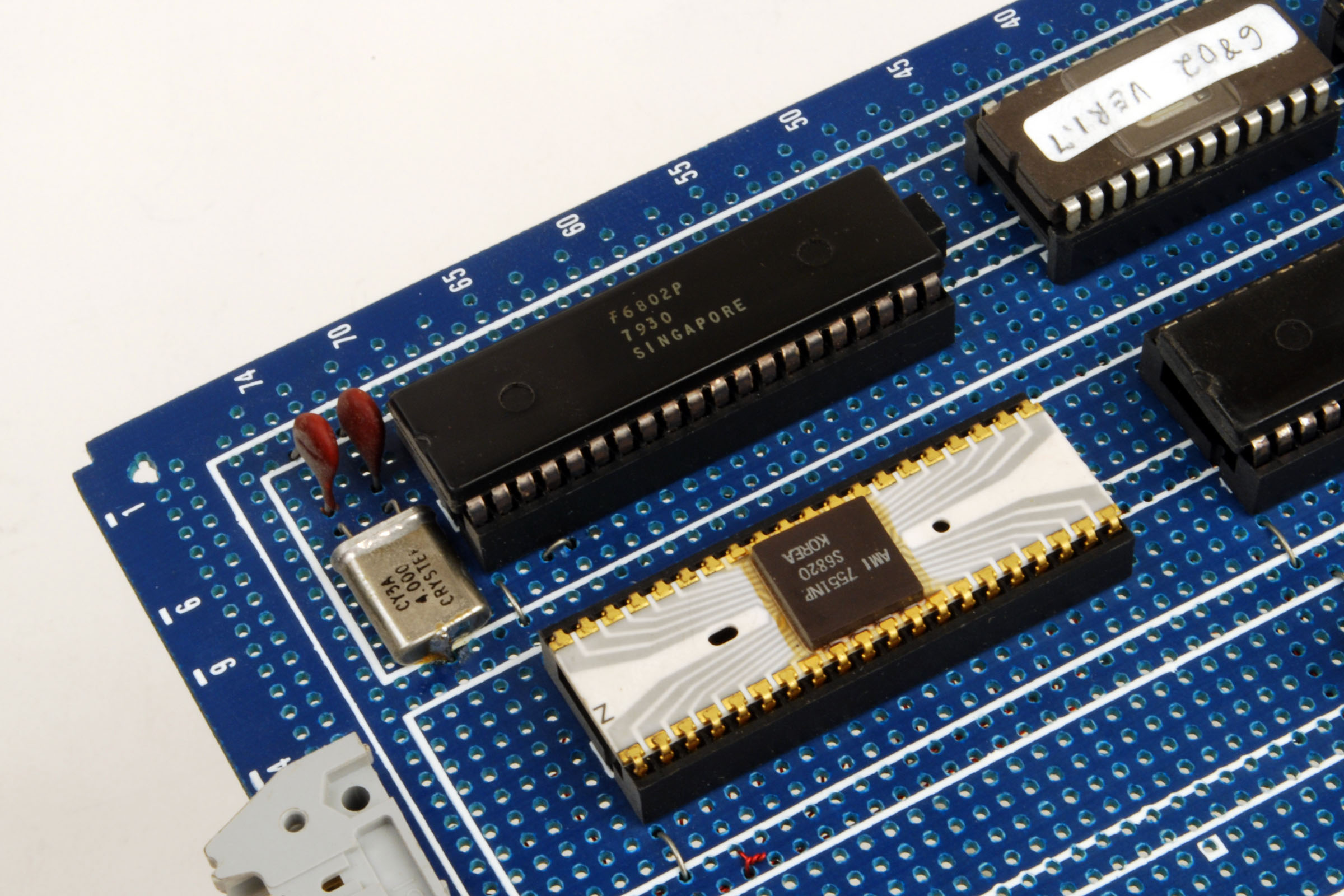 The black Fairchild f6802P was a second source for the Motorola MC6802 microprocessor. The 6802 had 128 bytes of RAM and on chip clock generation. The 4.000 MHz crystal frequency in the metal can next to the 6802 was divided by 4 to produce the 1 MHz system clock. The white AMI S6820 chip was a second source for the Motorola MC6820 Peripheral Interface Adapter (PIA). This provided two 8-bit I/O ports. The 2716 2KB EPROM with the "6802 VER 1.7" label contains the firmware for this board. This board was designed and built in September 1980 by Michael Holley